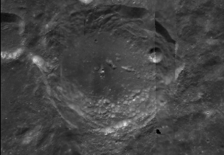 Clemntine image of Alder crater